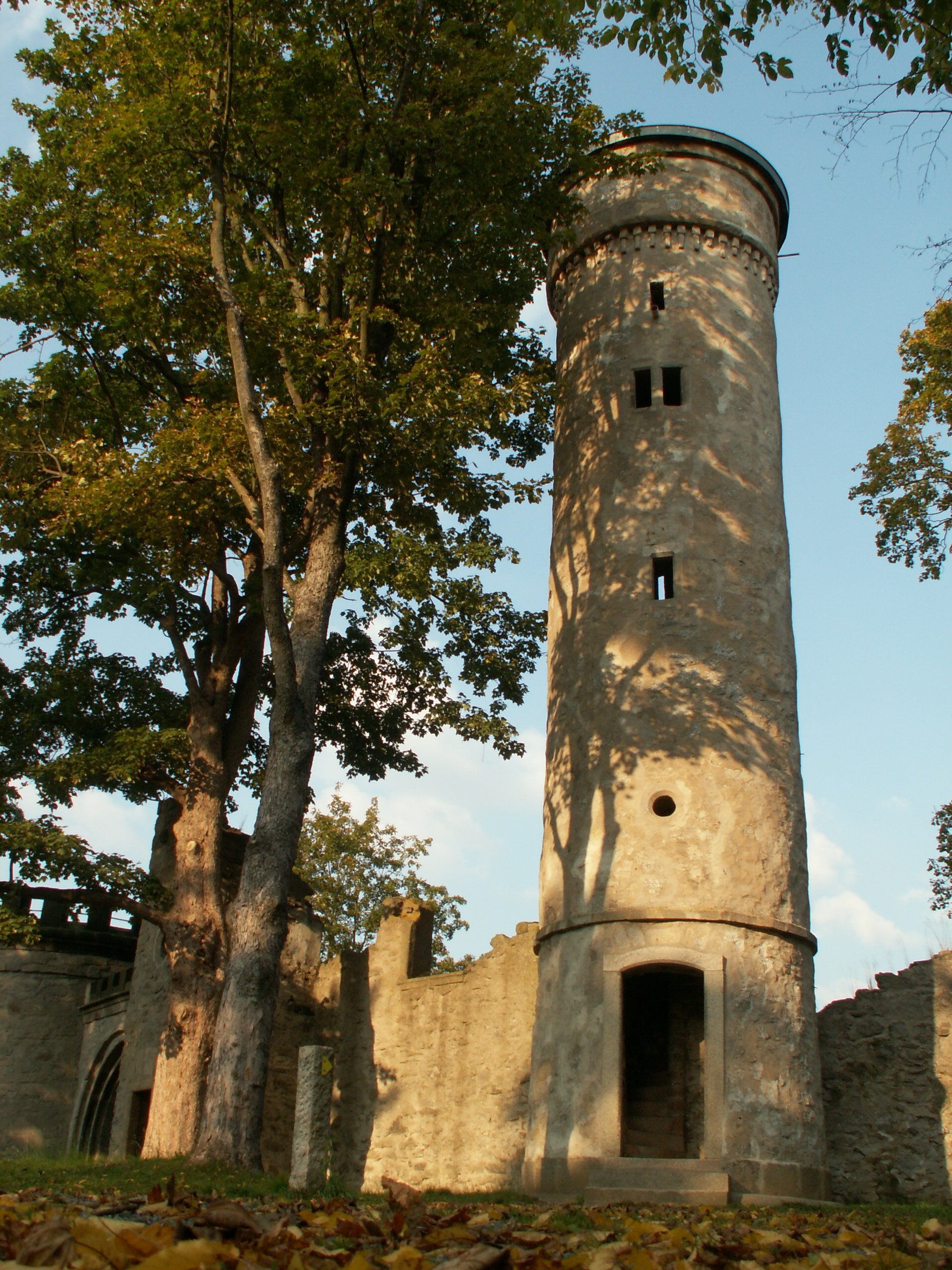 Artificial ruins in Theresiensteinpark, Hof an der Saale, Bavaria.